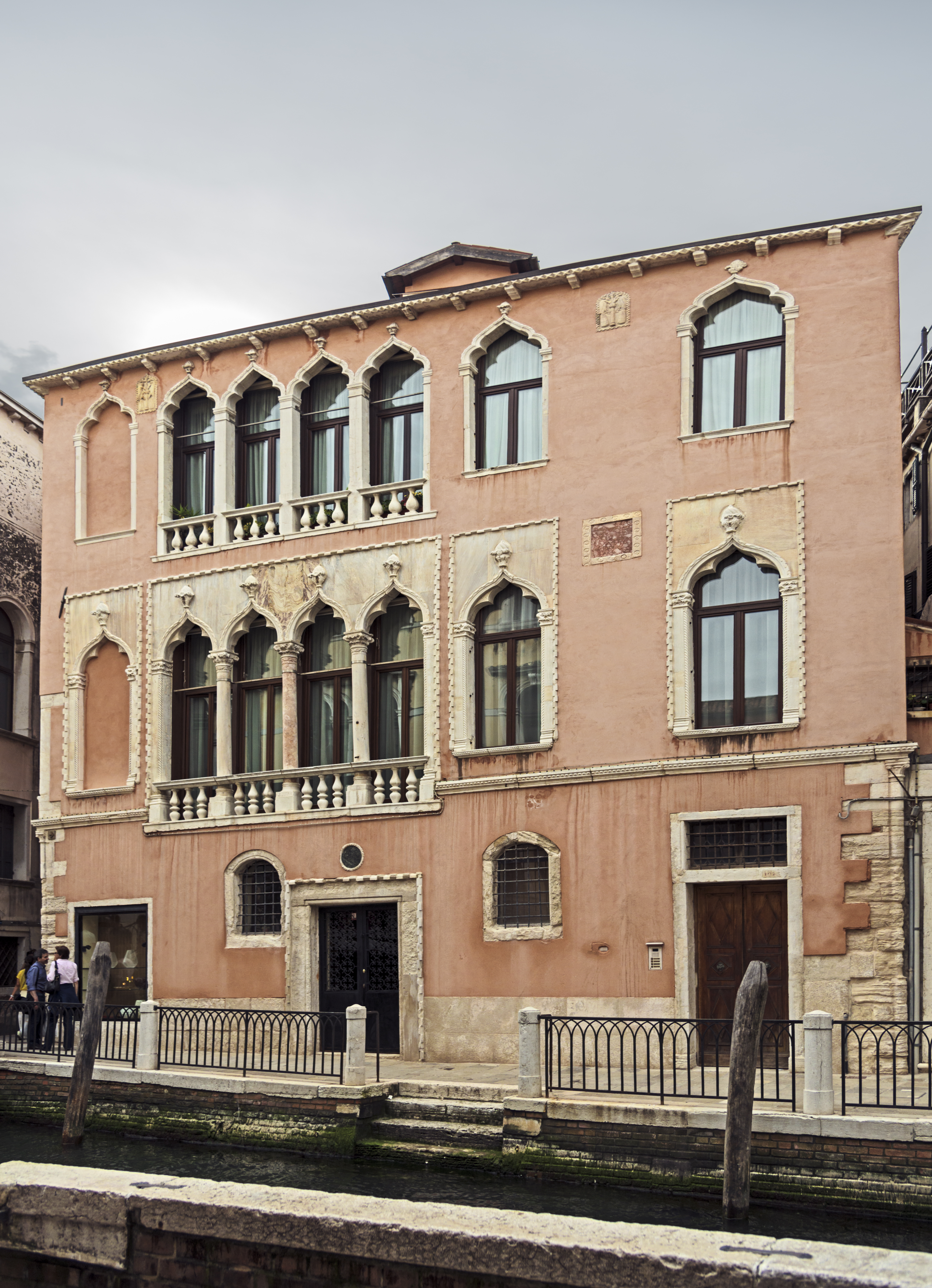 Palace Maravegia Venice. Facade on rio san Trovaso.